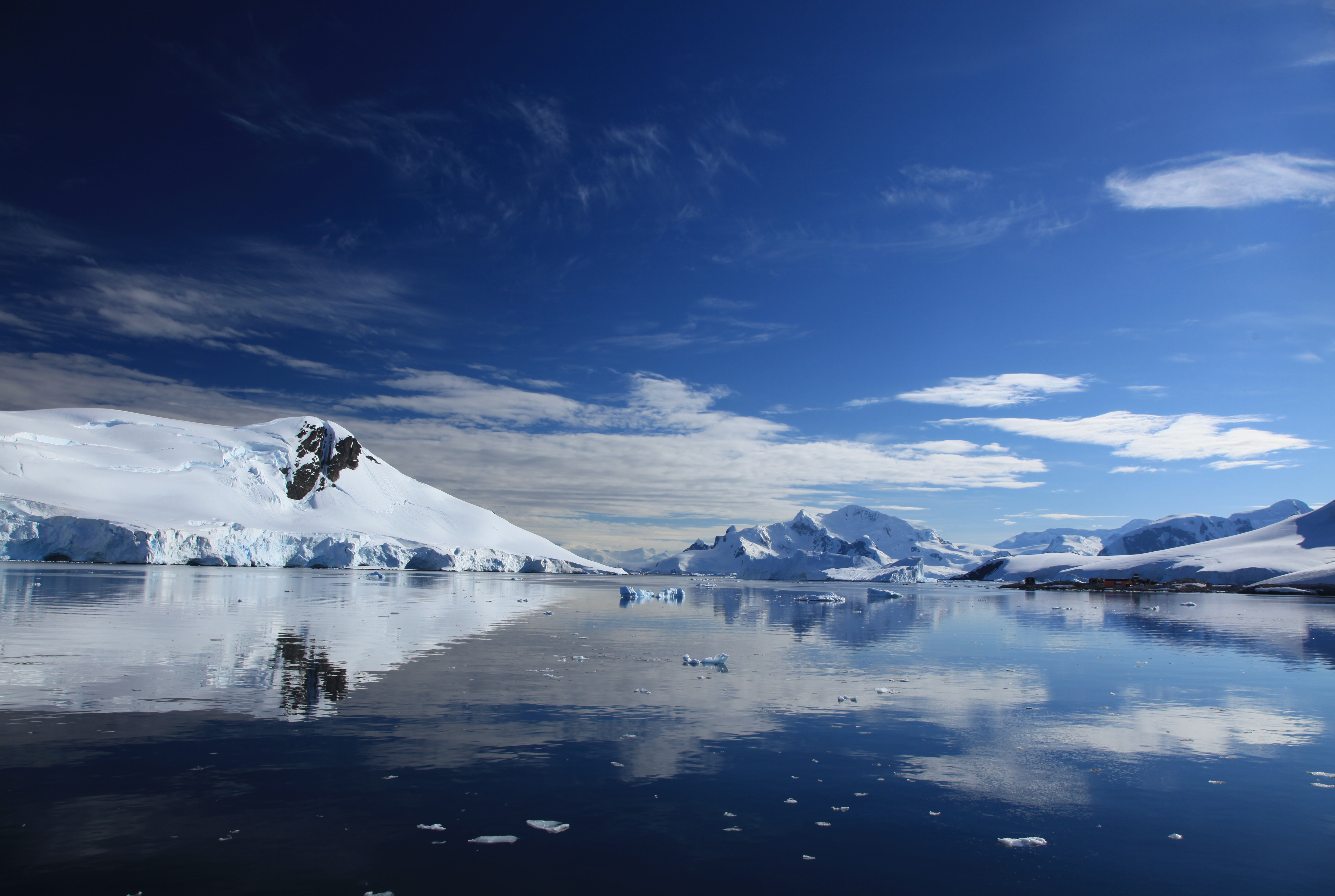 Waterboat Point and Chile's González Videla Station are at right.